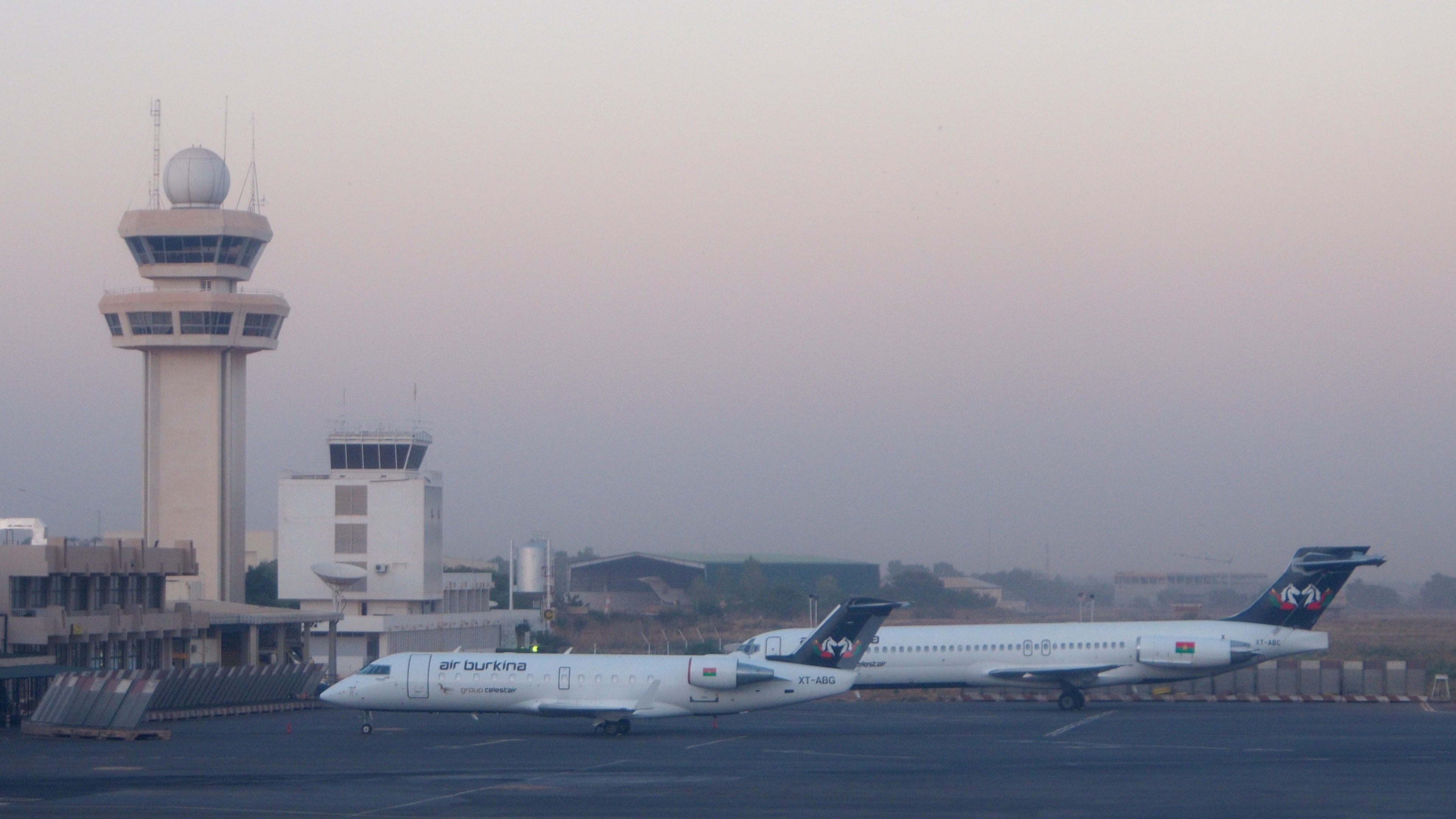 Two planes of Air Burkina on the tarmac at Ouagadougou international airport